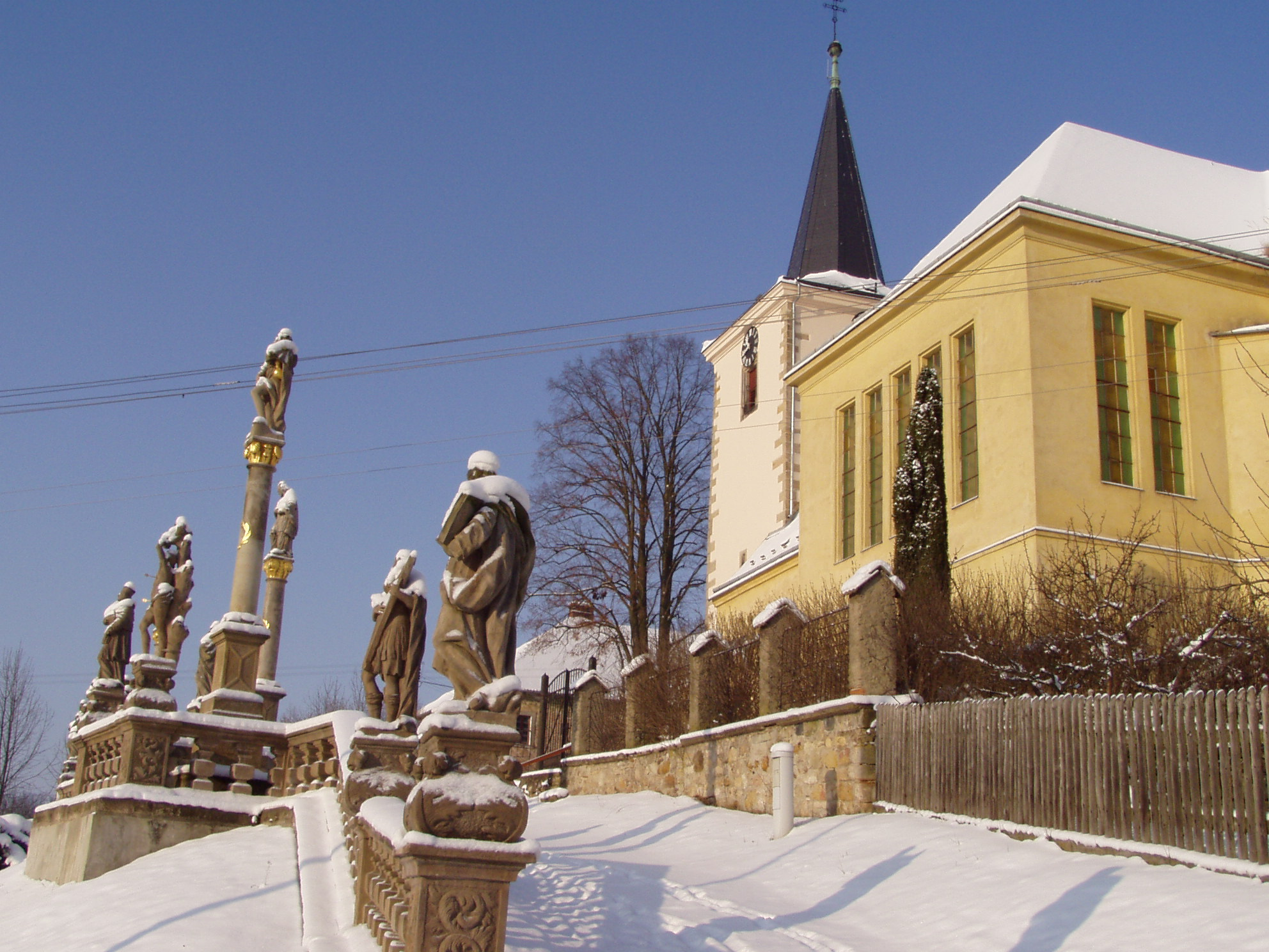 Kunčina - skulpturs 1 Česky: Kunčina - sochy 1